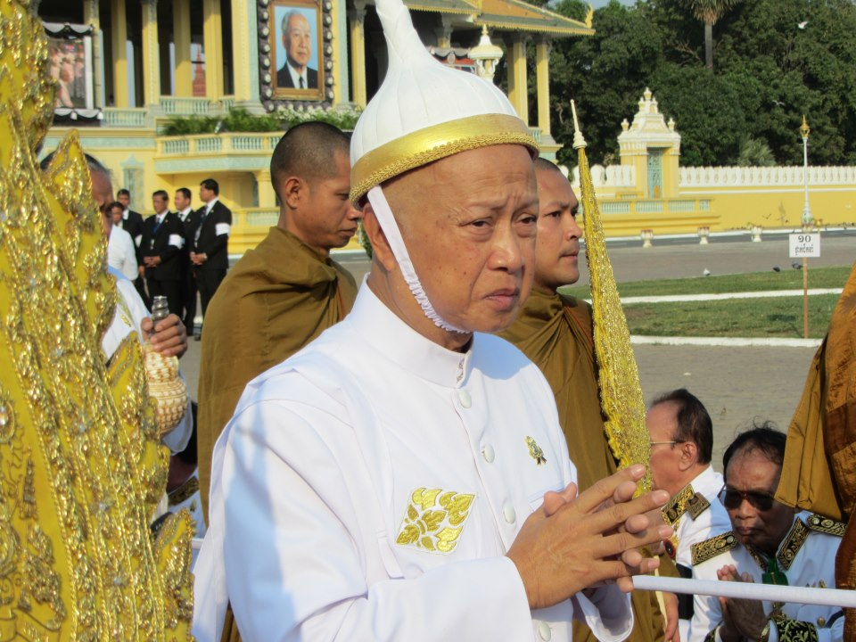 Cambodian prince and former first prime mininister Norodom Ranariddh walks during the funeral procession of his late father, King Father Norodom Sihanouk on February 1, 2013. (Heng Reaksmey/VOA Khmer)